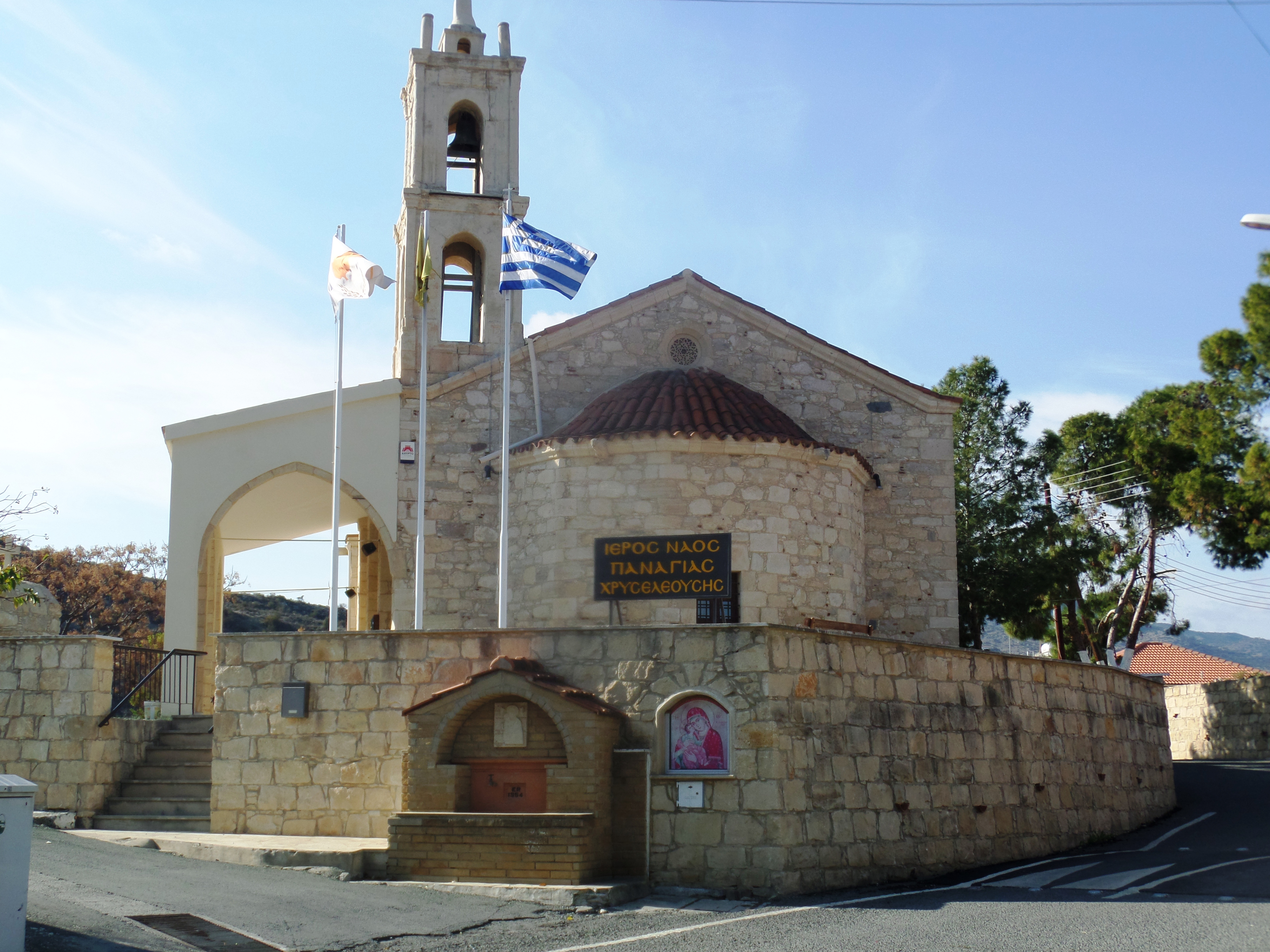 Panayia Chriseleousis church at Foinikaria